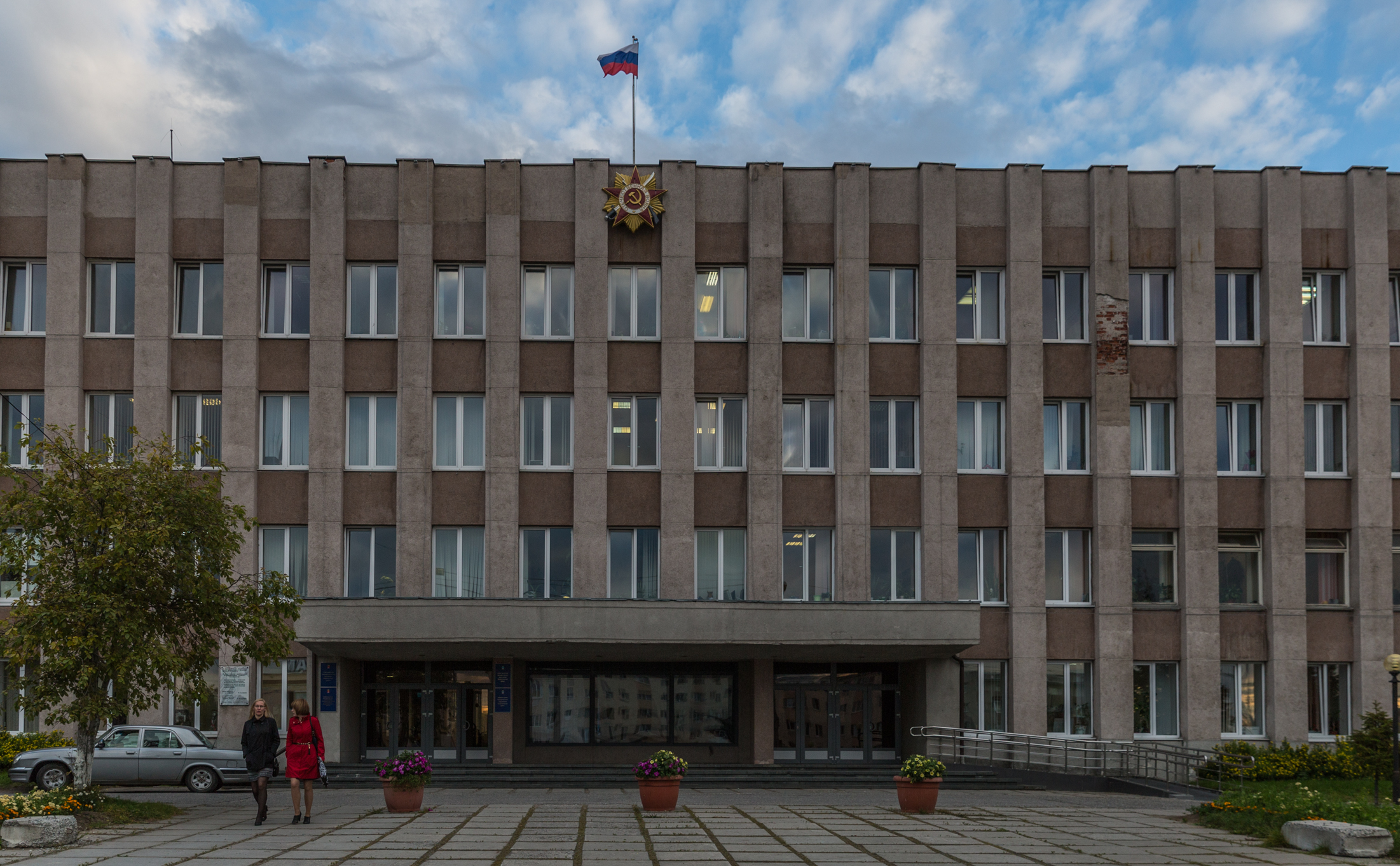 Kandalaksha